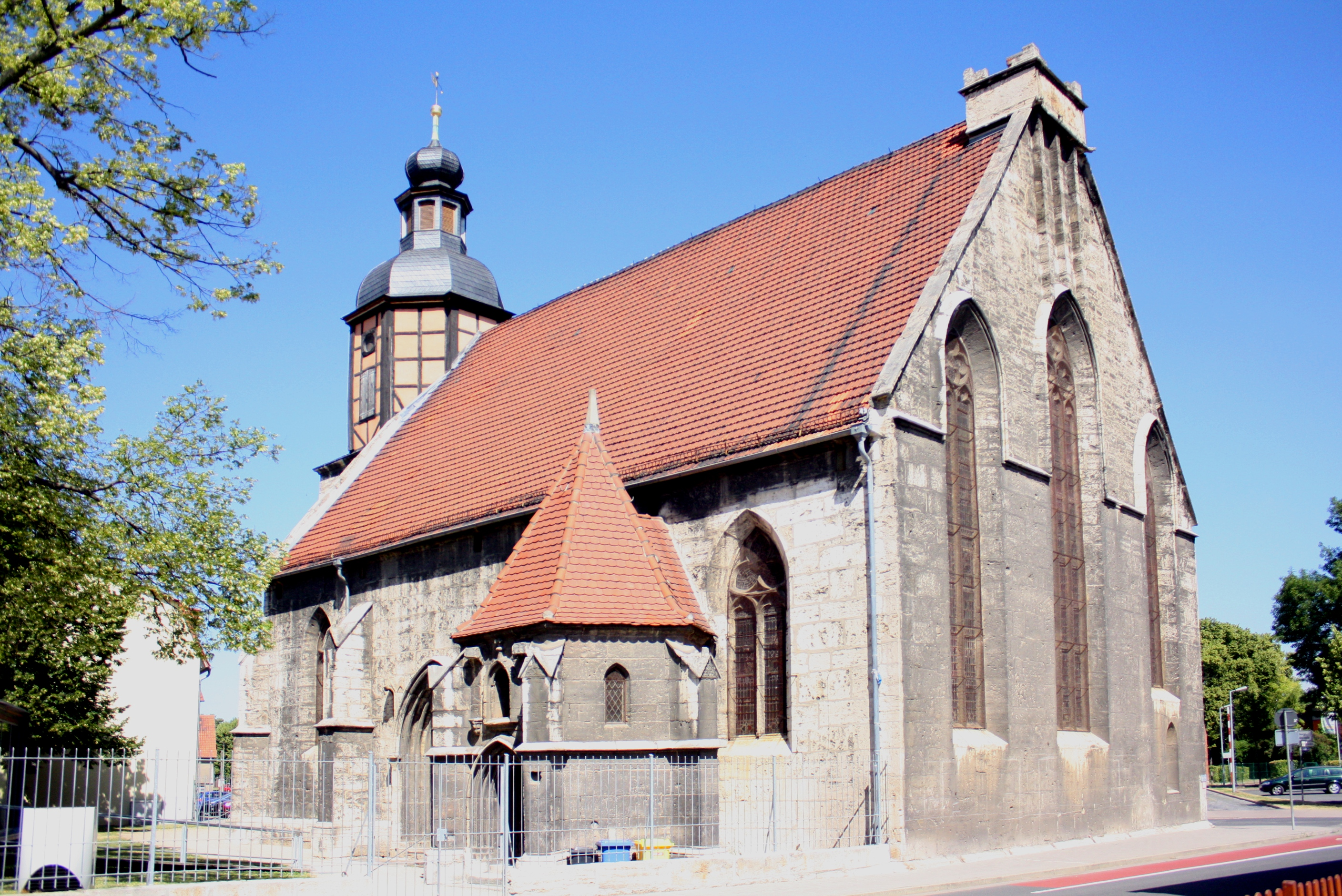 Saint George church in Mühlhausen/Thuringia